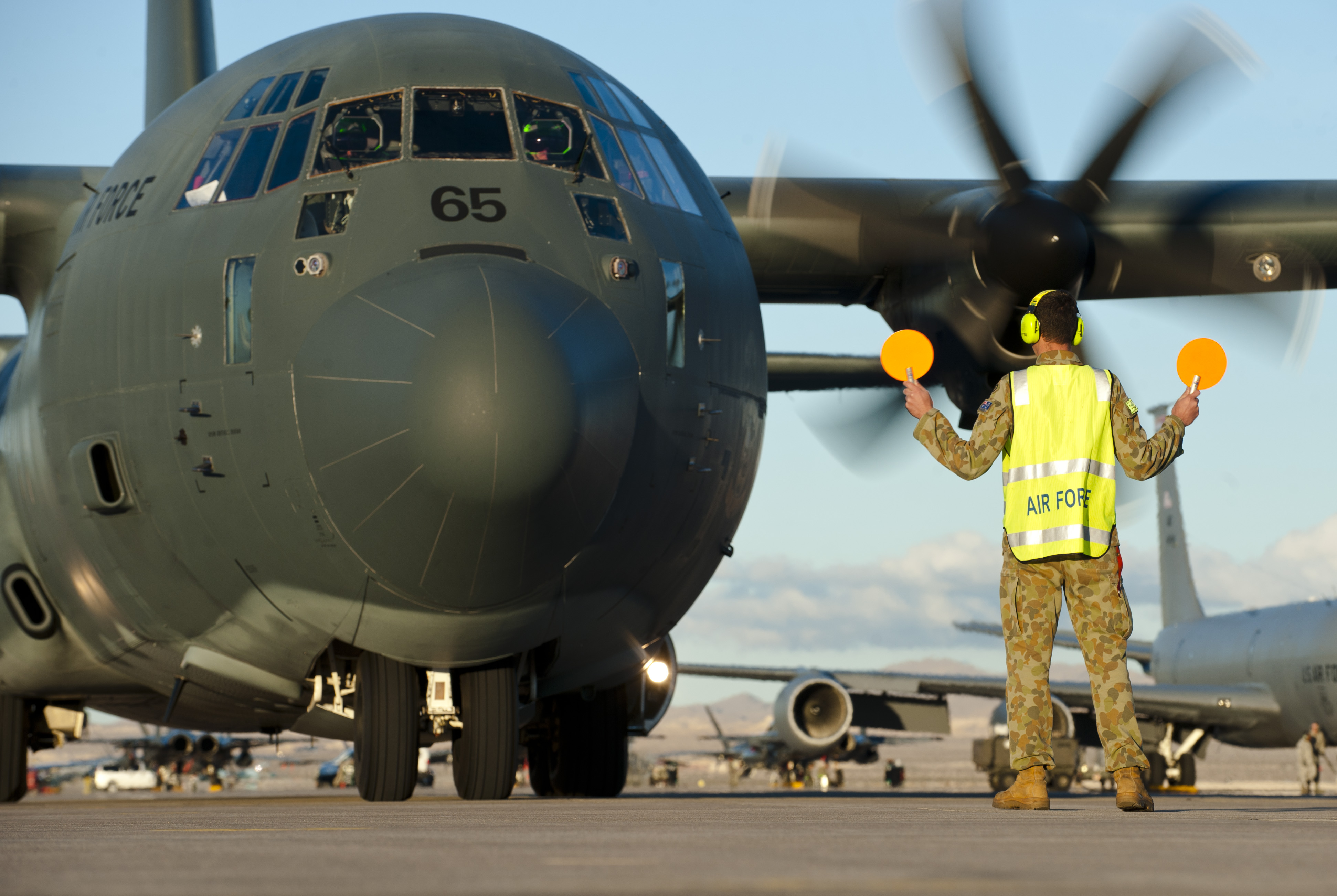 A Royal Australian air force aircraft maintainer marshals an RAAF C-130J Super Hercules into position after a training mission during Red Flag 15-1 at Nellis Air Force Base, Nev., Jan. 27, 2015.